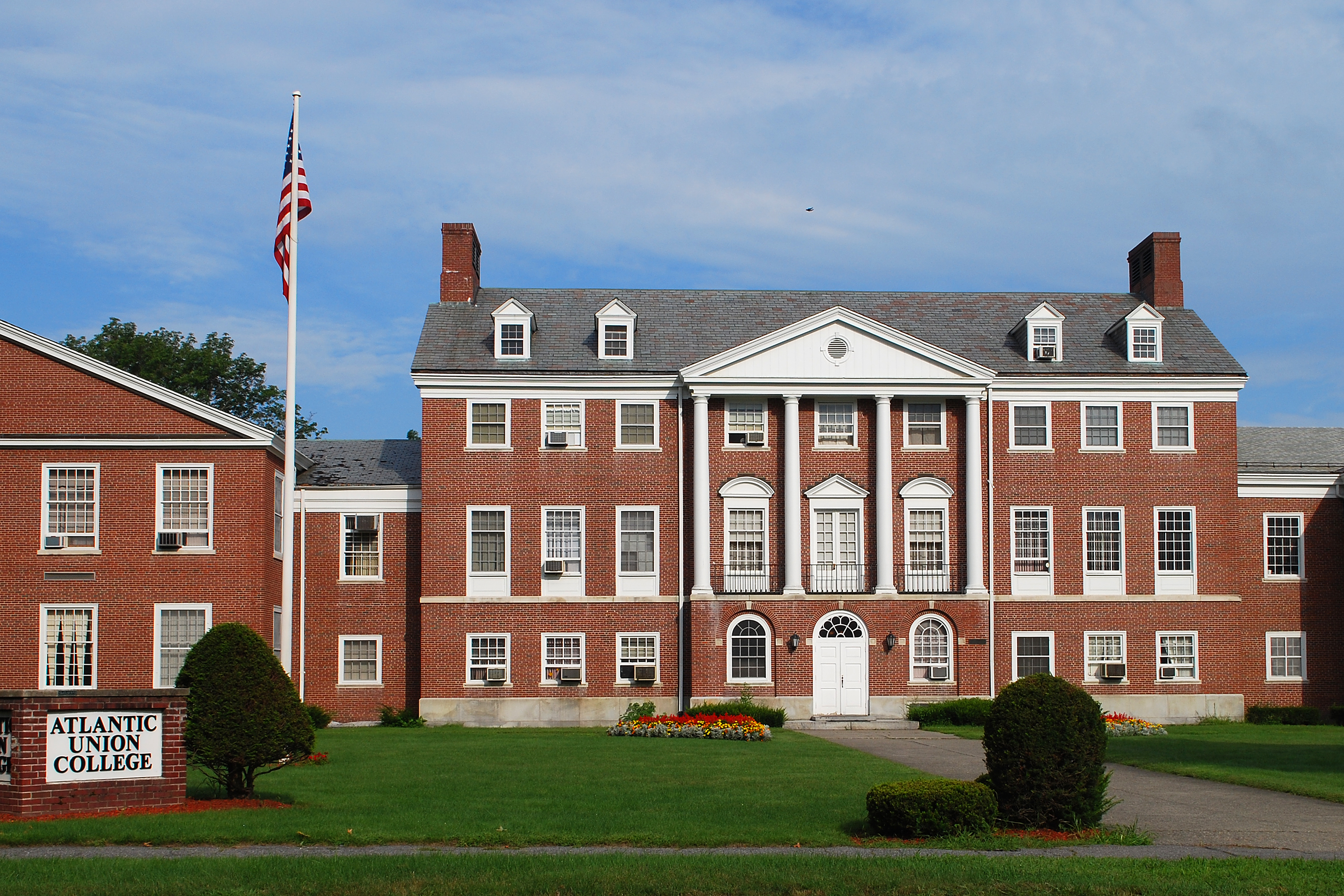 Atlantic Union College , Lancaster, MA.